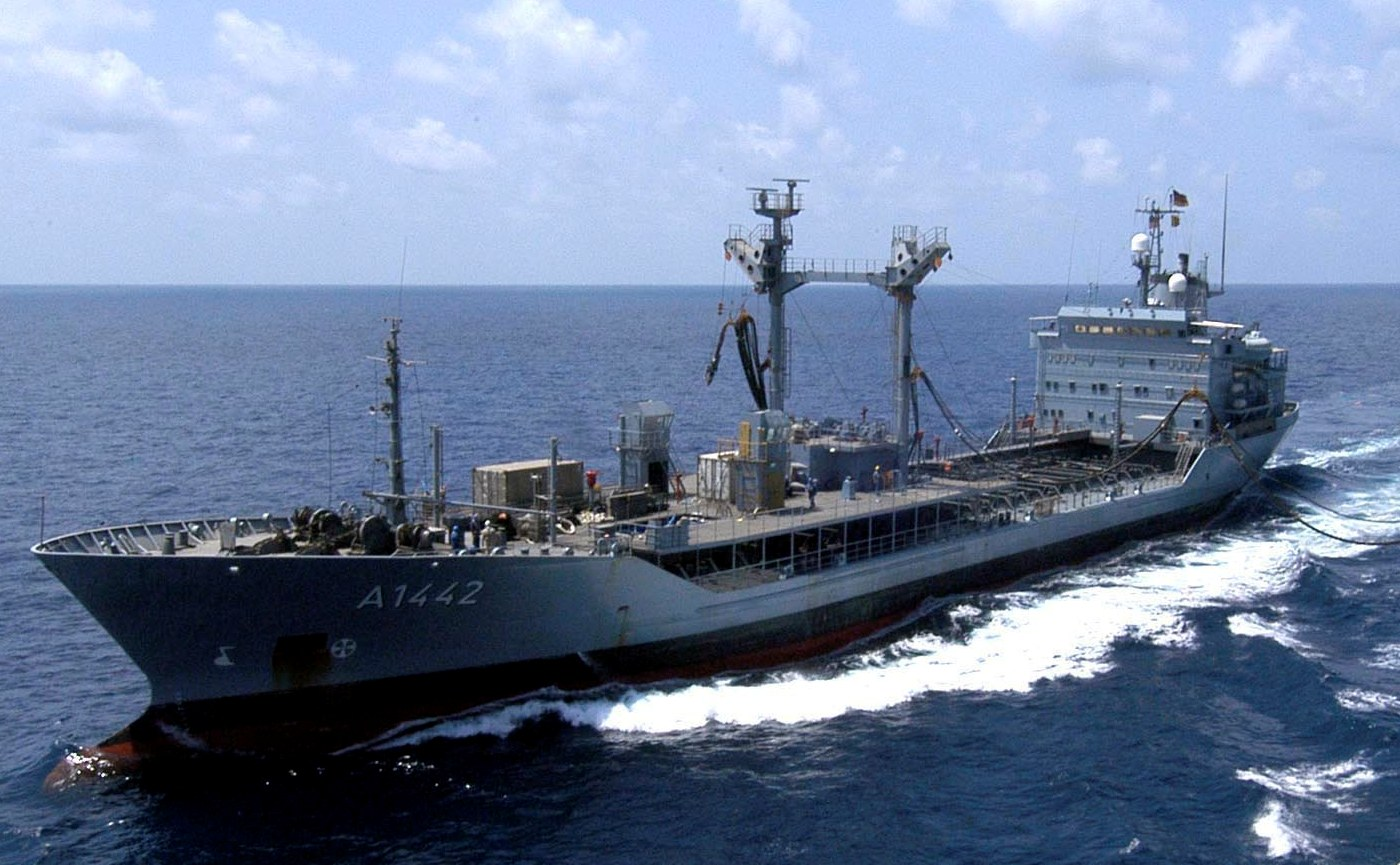 The German oiler Spessart (A1442) performs replenishment at sea (RAS) with the U.S. Navy amphibious assault ship USS Saipan (LHA-2), not visible, in the Gulf of Oman on 4 October 2006.